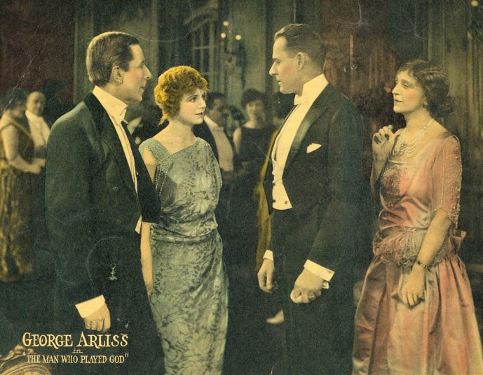 Left to right: George Arliss, Ann Forrest, Edward Earle, and Effie Shannon in The Man Who Played God - lobby card (cropped).